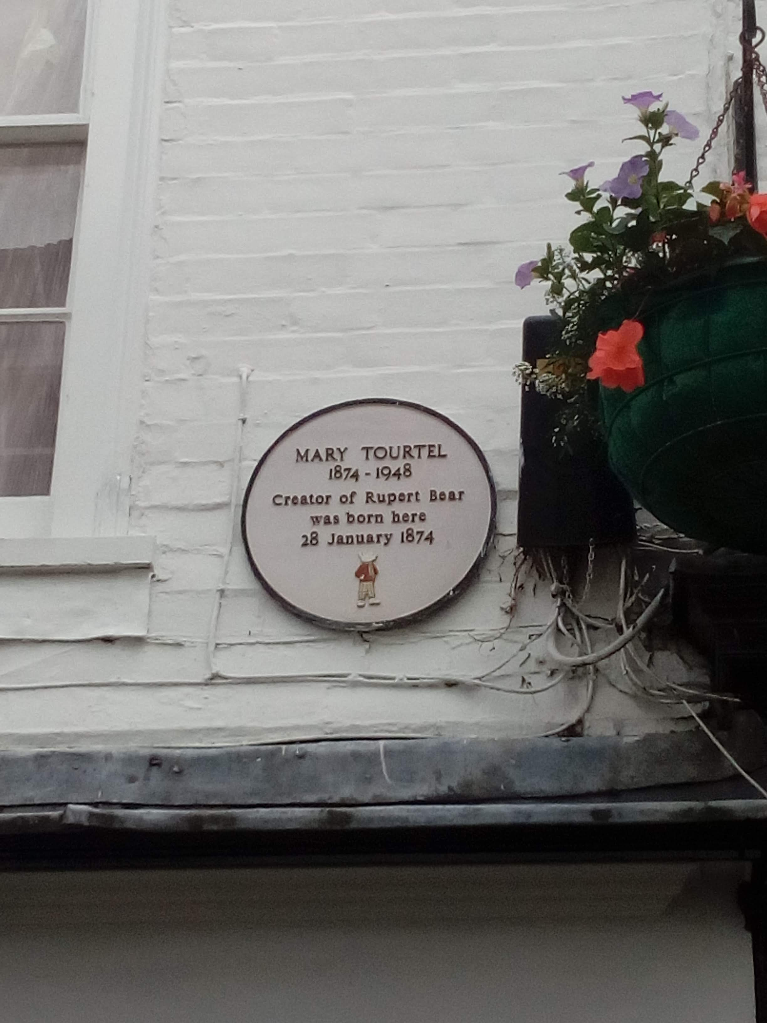 The house in Canterbury where artist Mary Tourtel was born